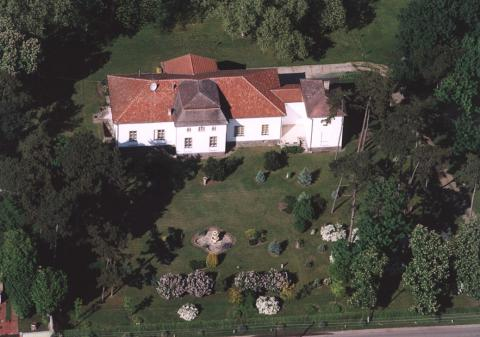 Blaskovich Country House, Tápiószele, Hungary, aerialphotgraphy